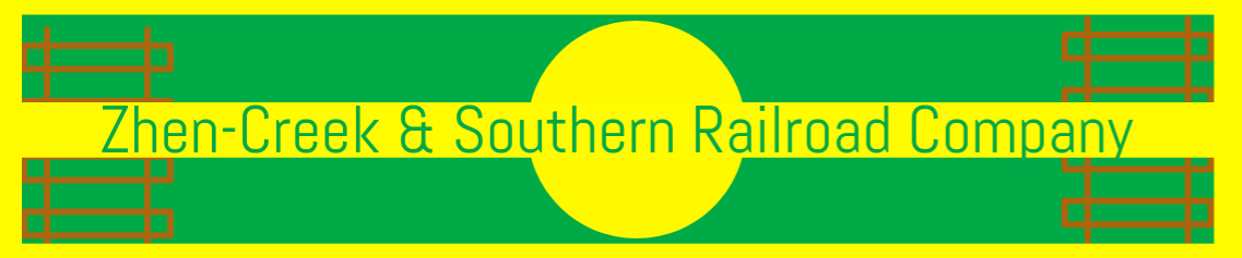 Zhen-Creek & Southern Railroad logo